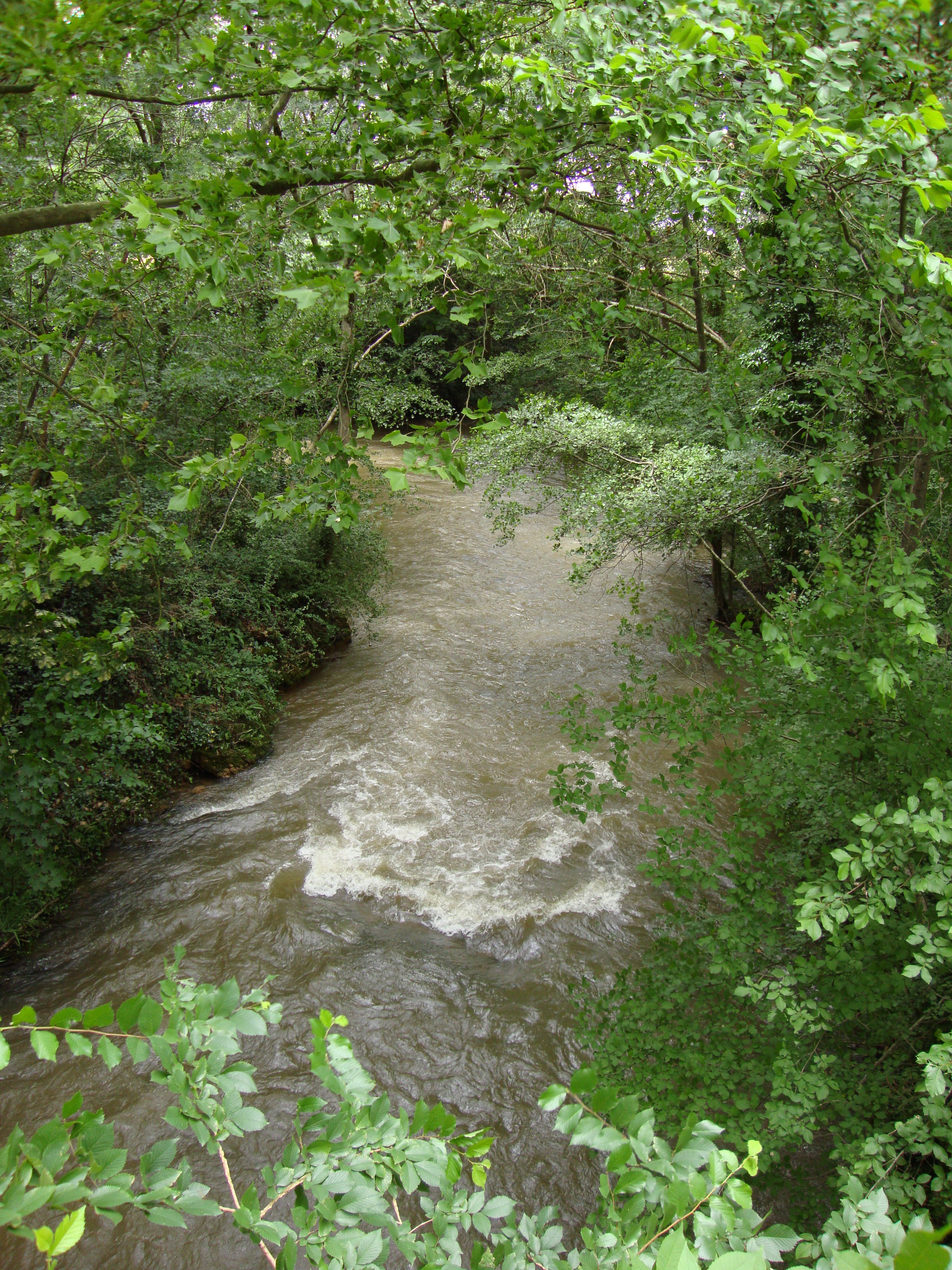 Valdurenque (Tarn, Fr) Durenque river